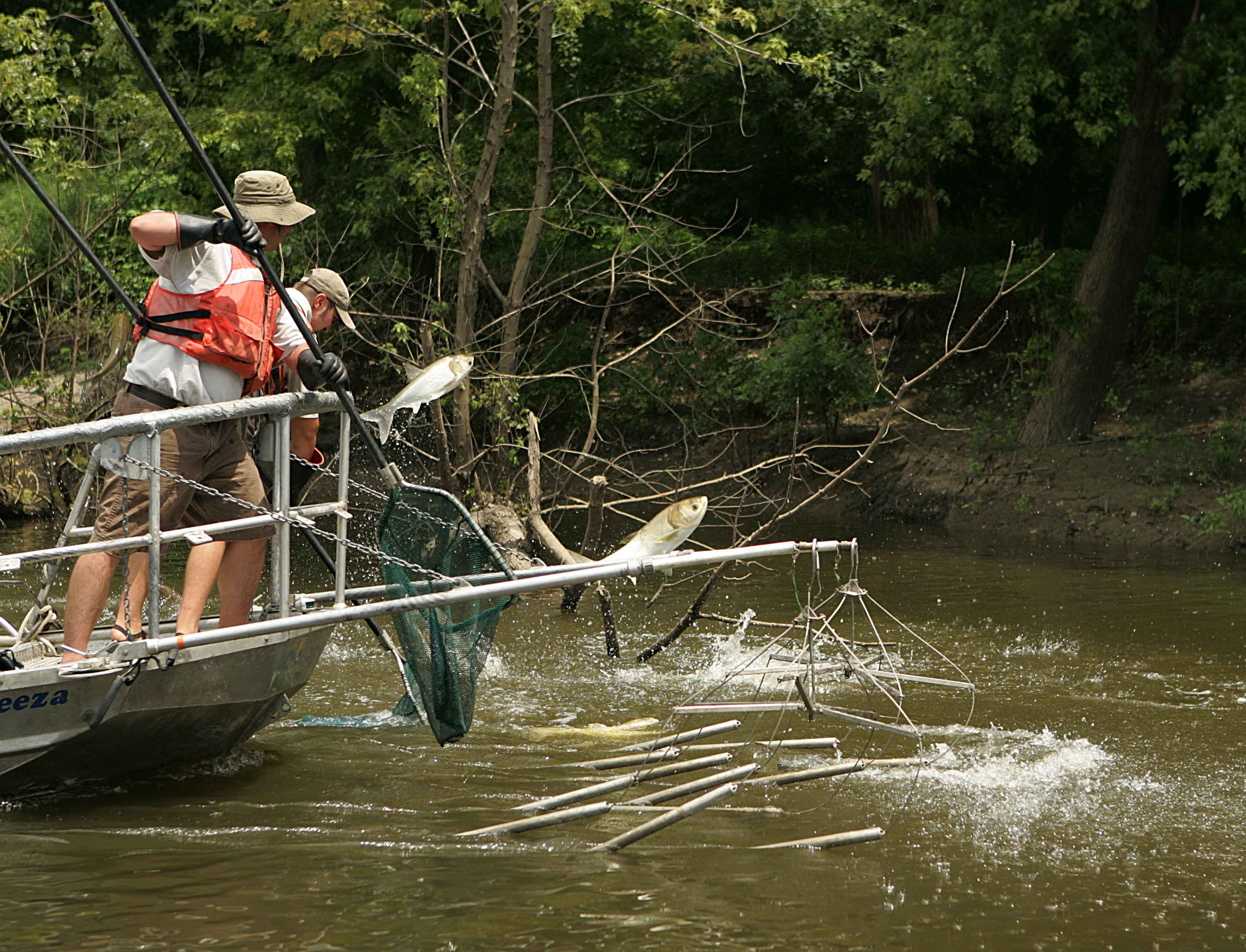 Image title: Electrofishing for the asian carp invasive species Image from Public domain images website